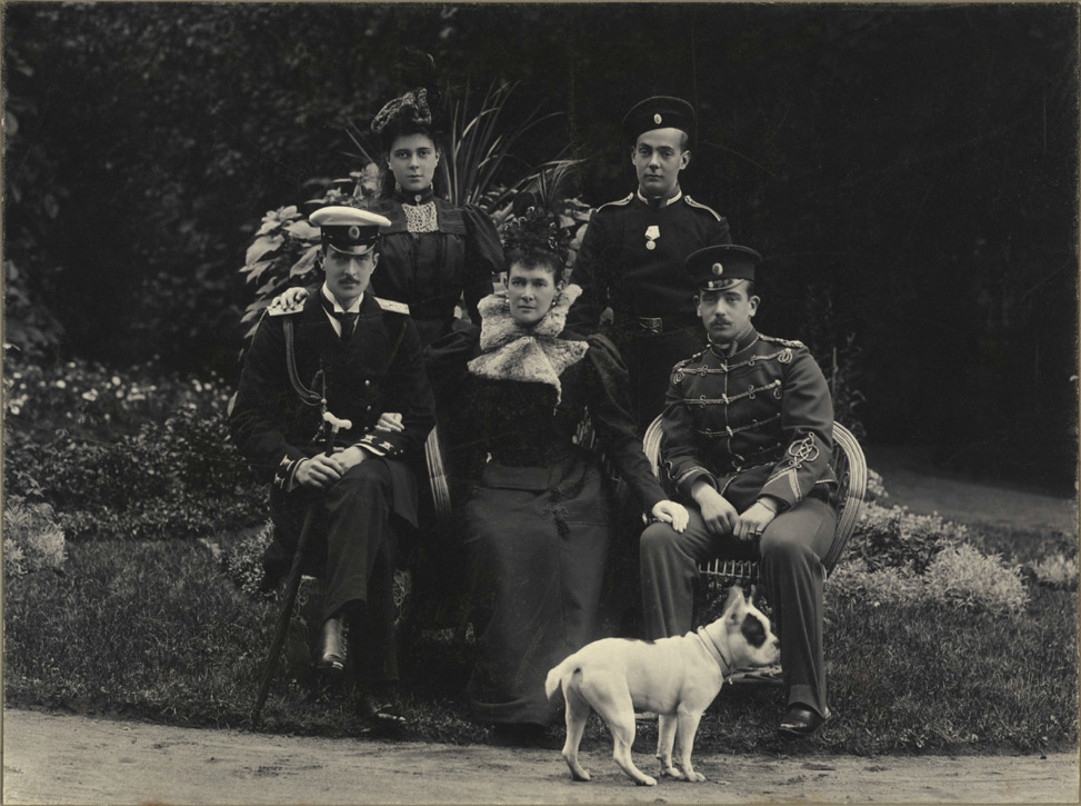 Grand Duchess Marie Pavlovna of Russia with her four children